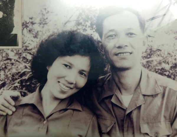 Photo of Nguyễn Hữu An and his wife.